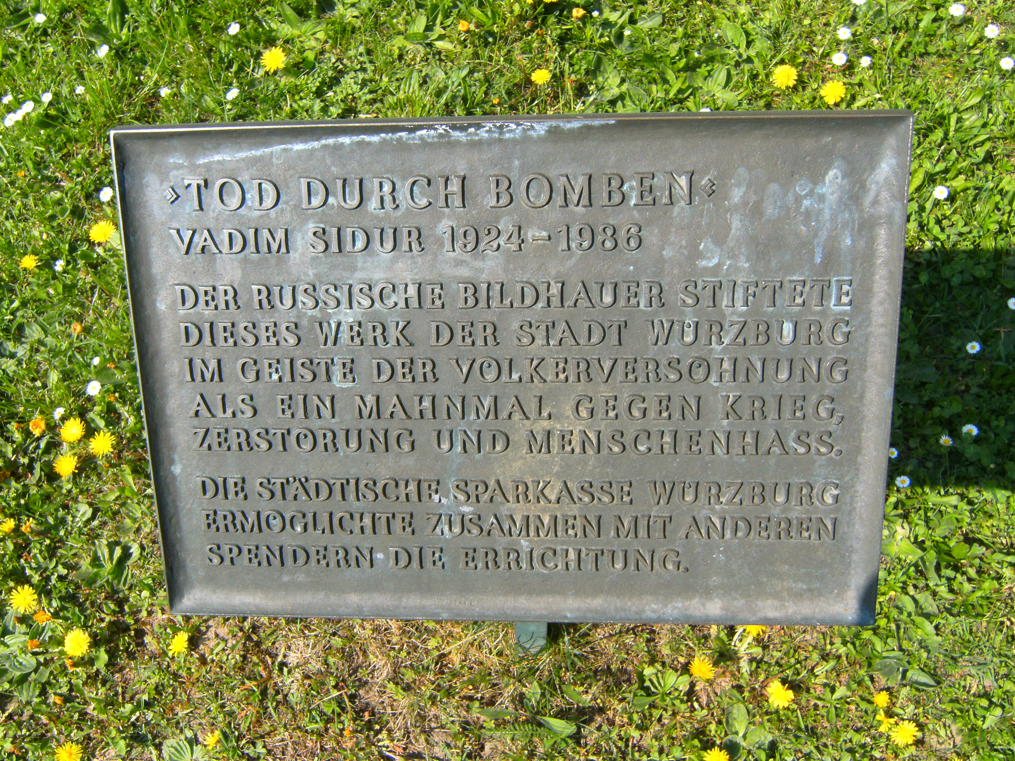 St.-Johannis-Kirche (Würzburg), Germany. Memorial against bombing (Tod durch Bomben - death by bombing) by Vadim Sidur. Plaque.